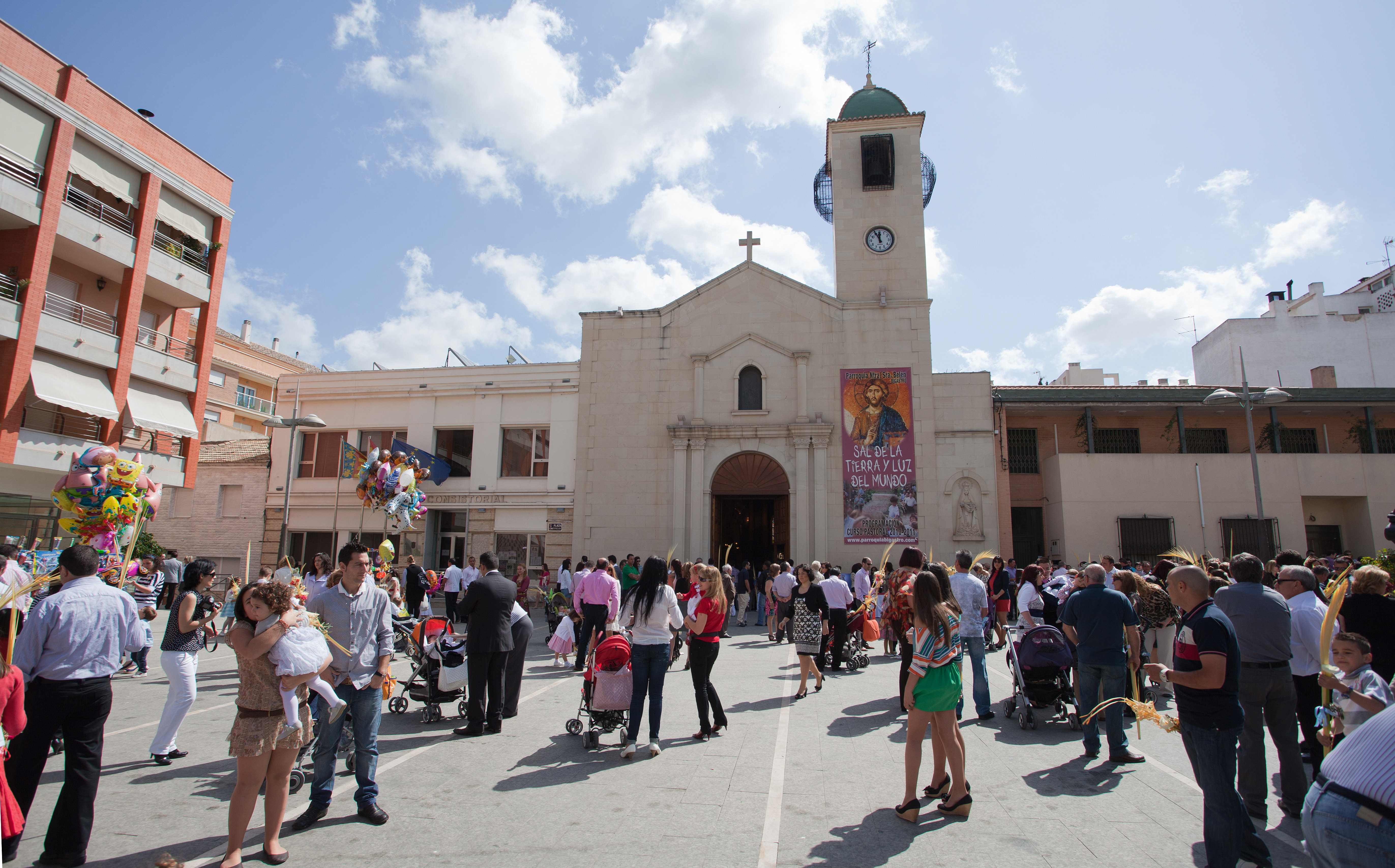 As they arrived back at the church, many went inside for mass. The rest gathered outside to chat, take photos or go for refreshments in the bar alongside the square